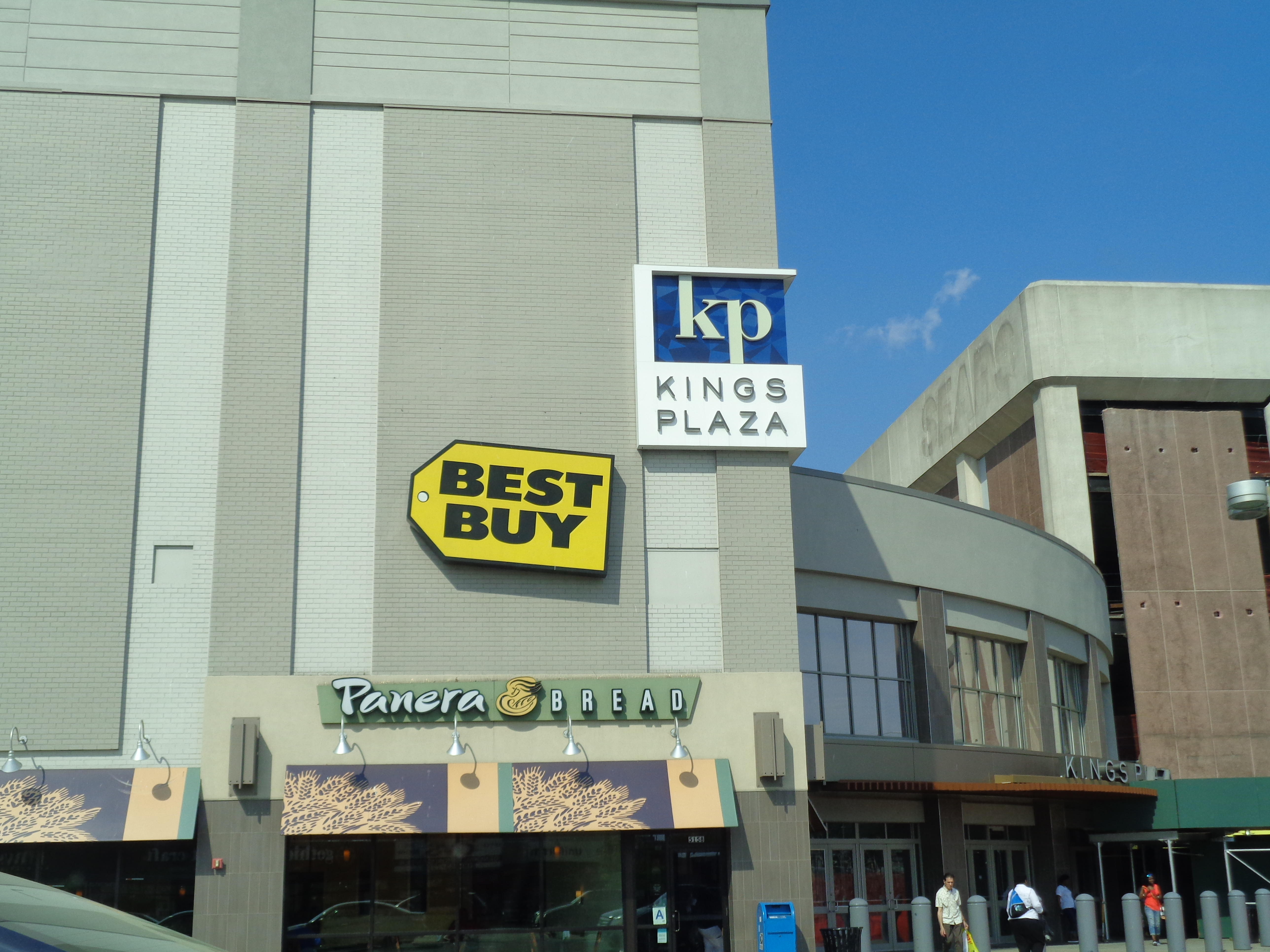 The entrance to Kings Plaza in Brooklyn, New York. Looking east from Flatbush Avenue.